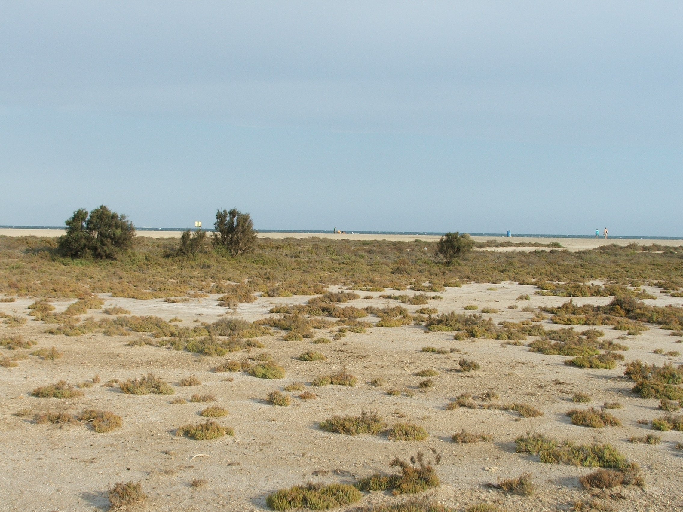 Punta Entinas-Sabinar salt lands